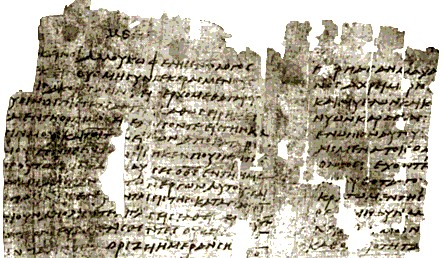 Portions of two columns of P13